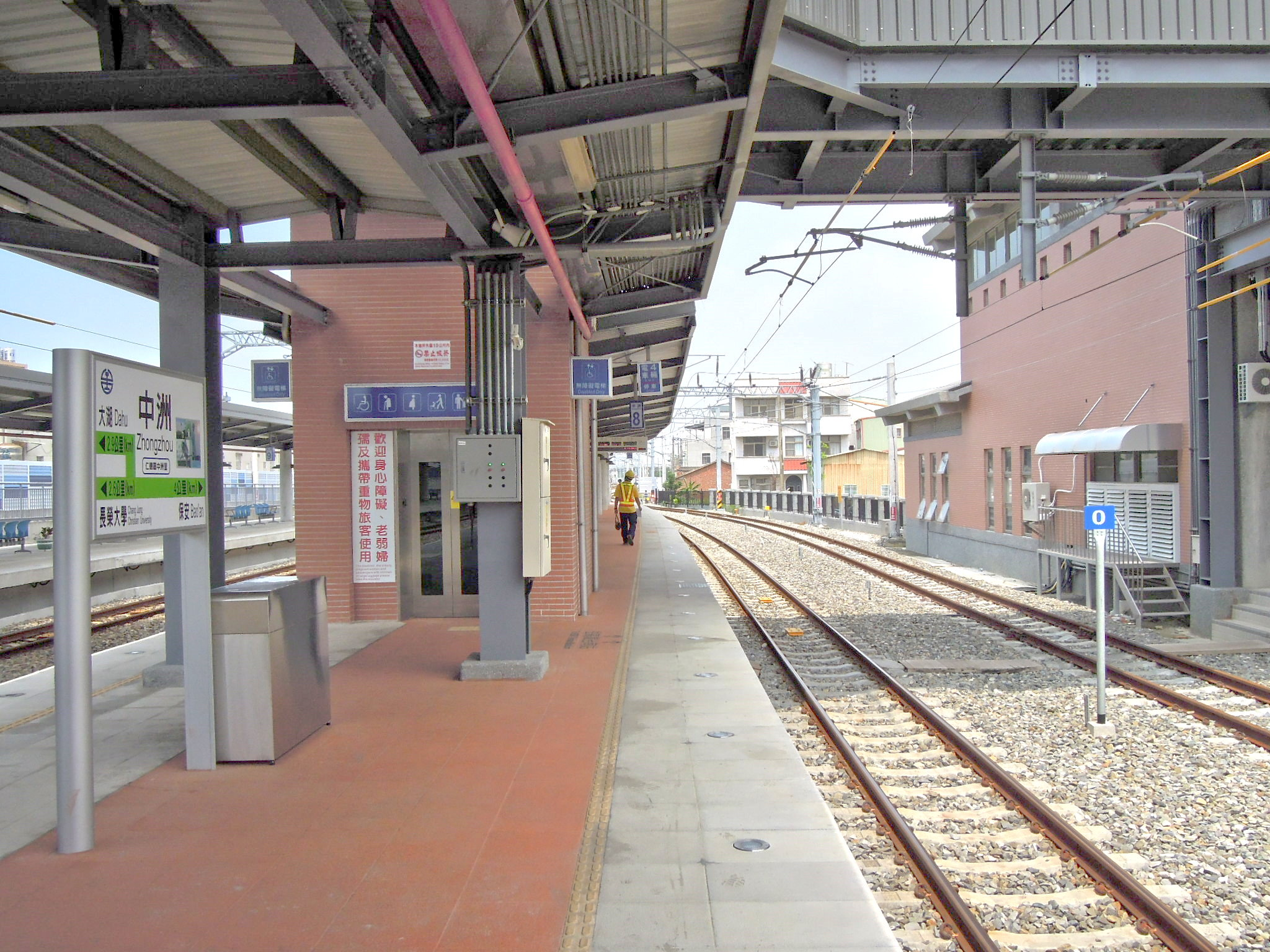 0 km of TRA Shalun Line (Tainan, Taiwan)